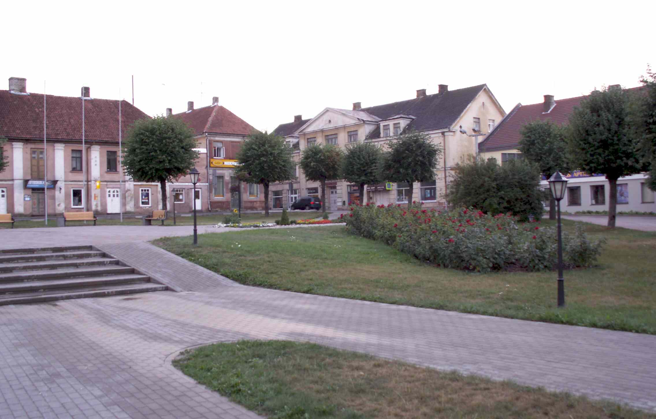 Saldus, Latvia.